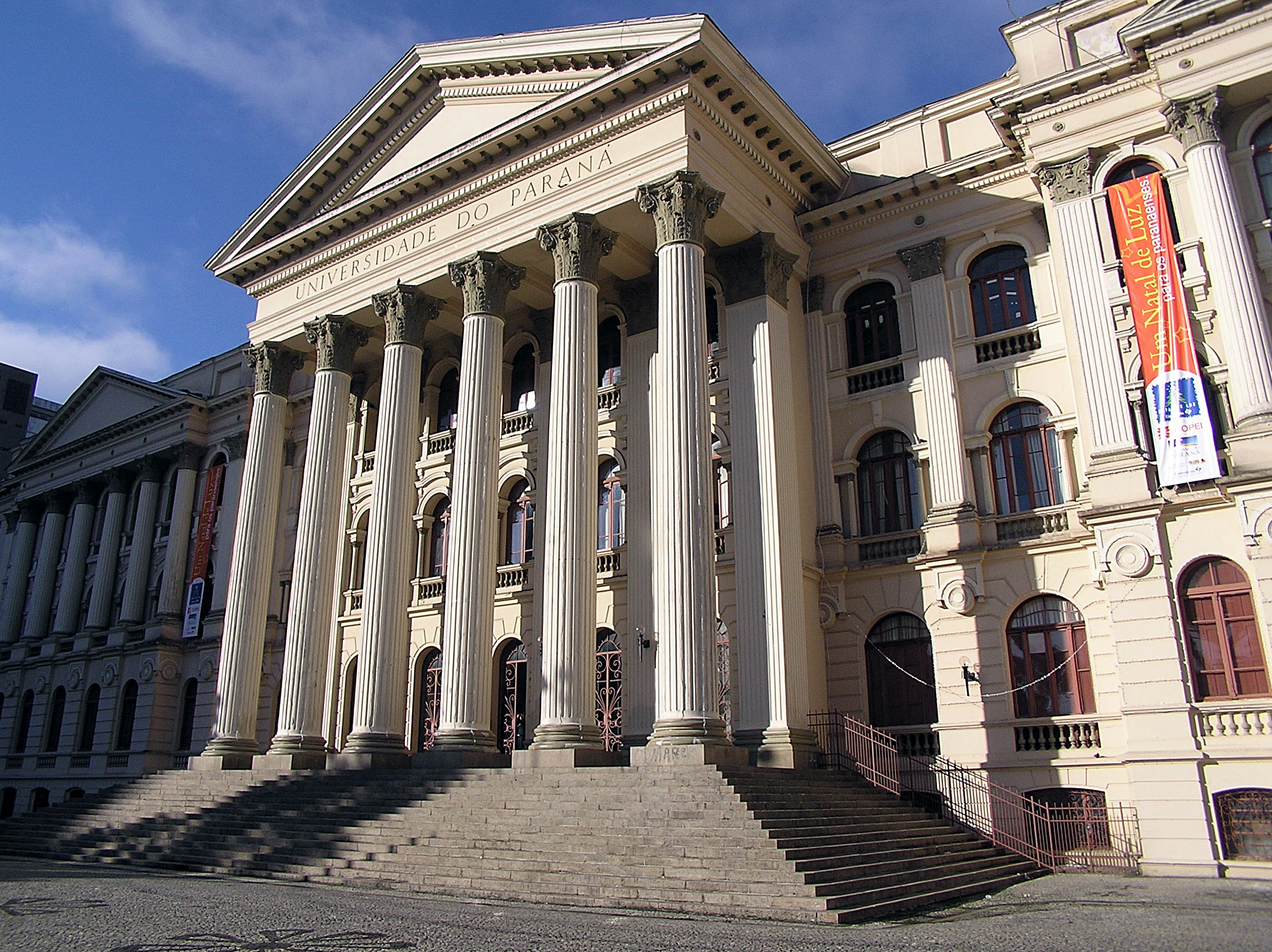 The Campus Santos Andrade of the Universidade Federal do Paraná(UFPR, Federal University of Parana). The oldest university in Brazil. Founded in 1912.